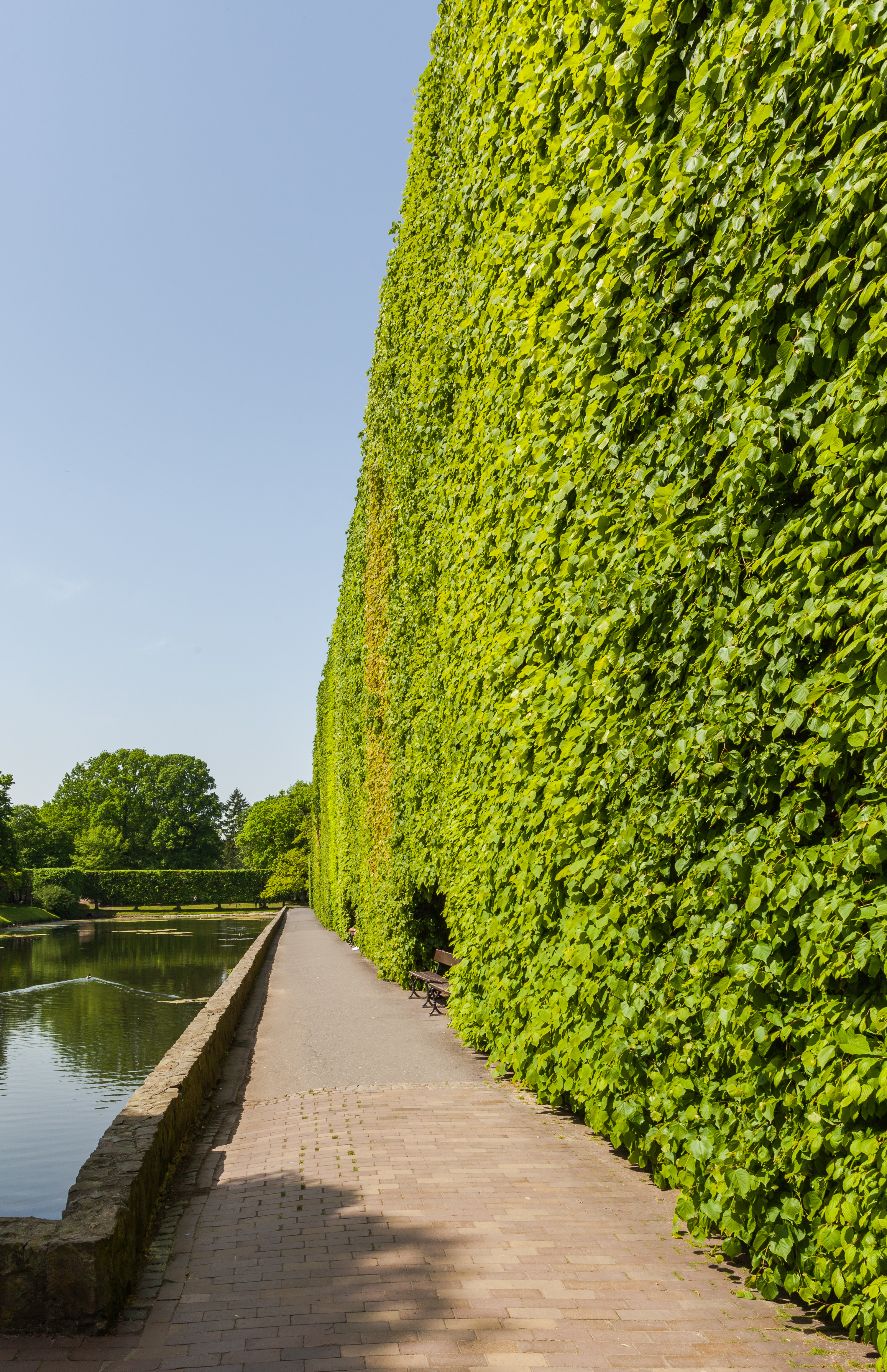 Adam Mickiewicz Park, Oliwa, Gdańsk, Poland